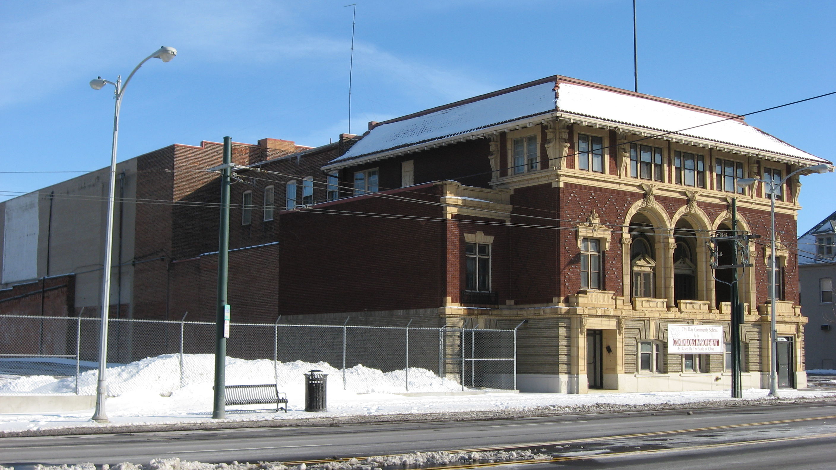 Front and northern side of the Eagles Building, located at 320 S. Main Street in downtown Dayton, Ohio, United States. Built in 1916, it is listed on the National Register of Historic Places.